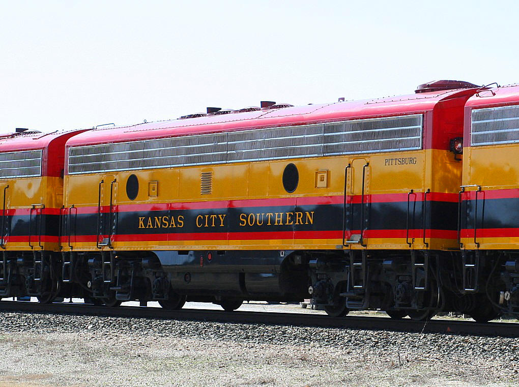 Kansas City Southern Railway EMD F9B